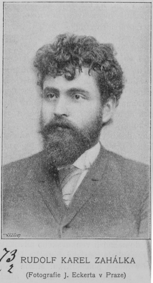 Portrait of Rudolf Karel Zahálka (1867-1899), Czech writer